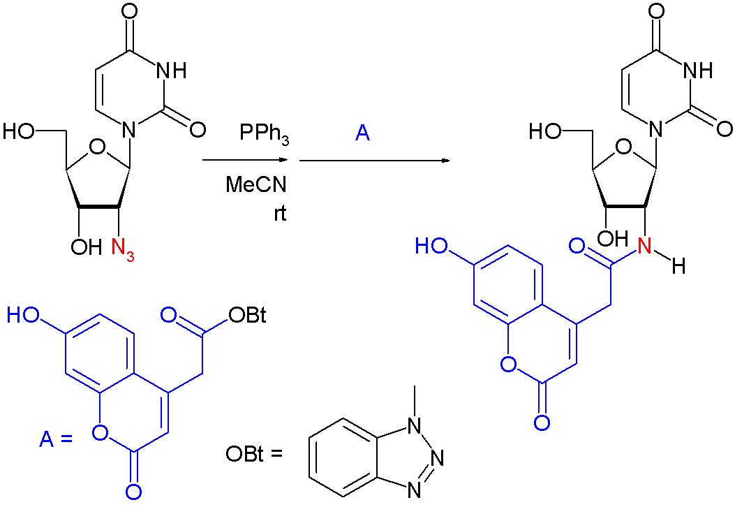 Stauding Ligation Application